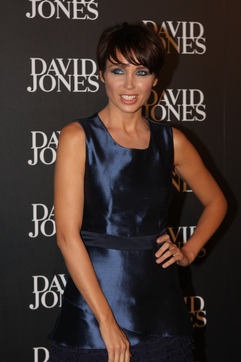 Australian actress and singer Dannii Minogue David Jones Autumn Winter Launch, Sydney, Australia